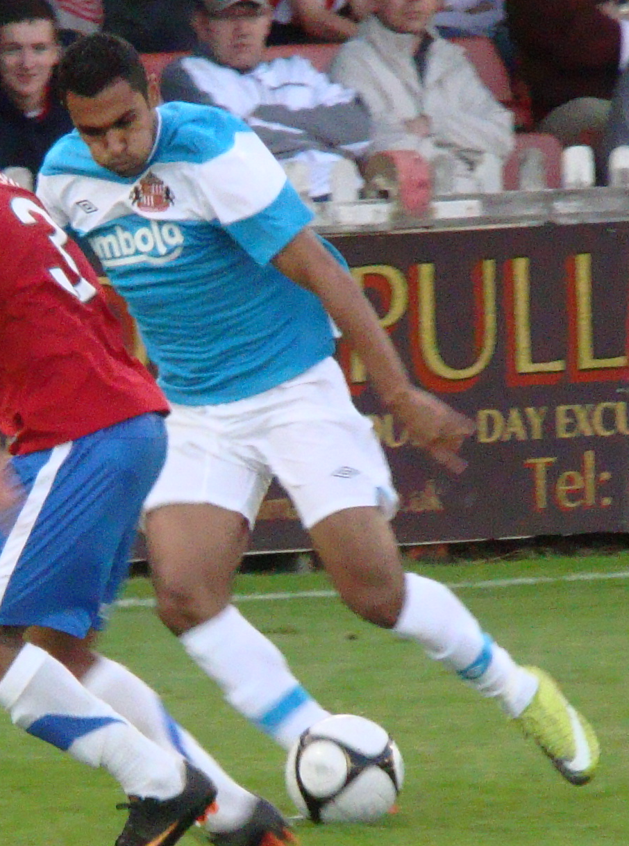 Ahmed Elmohamady. Image cropped from original at flickr.